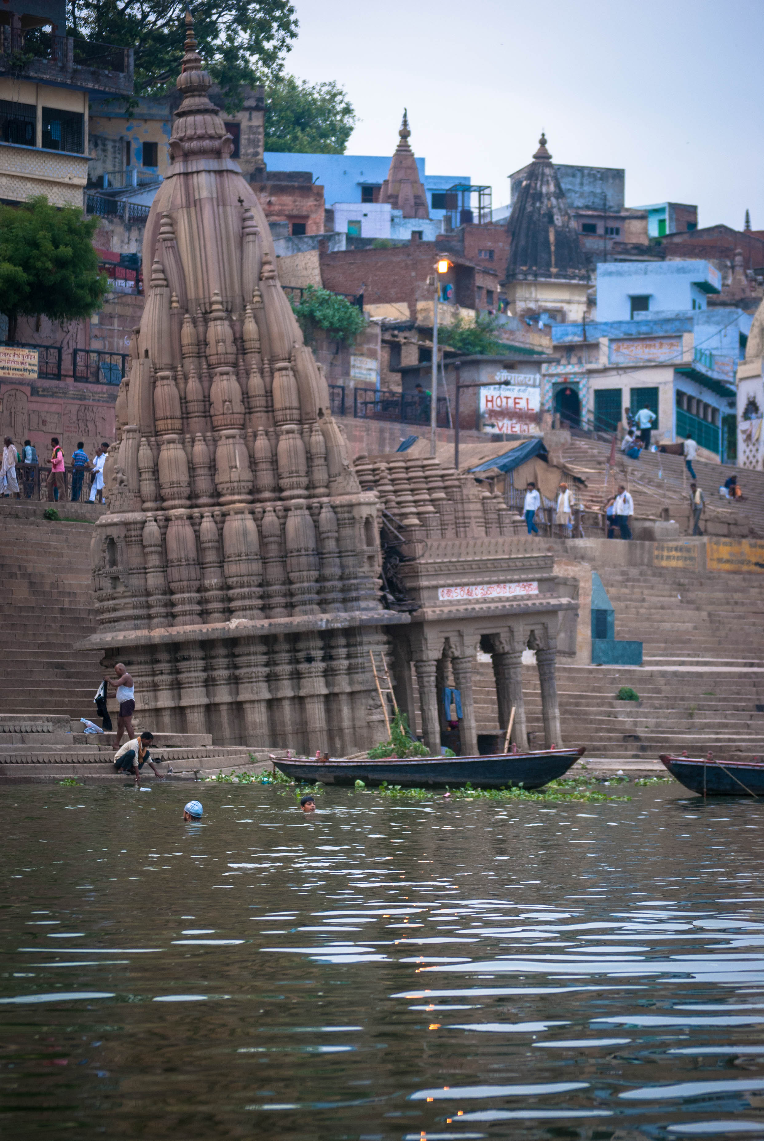 This image was taken in Varanasi,2013